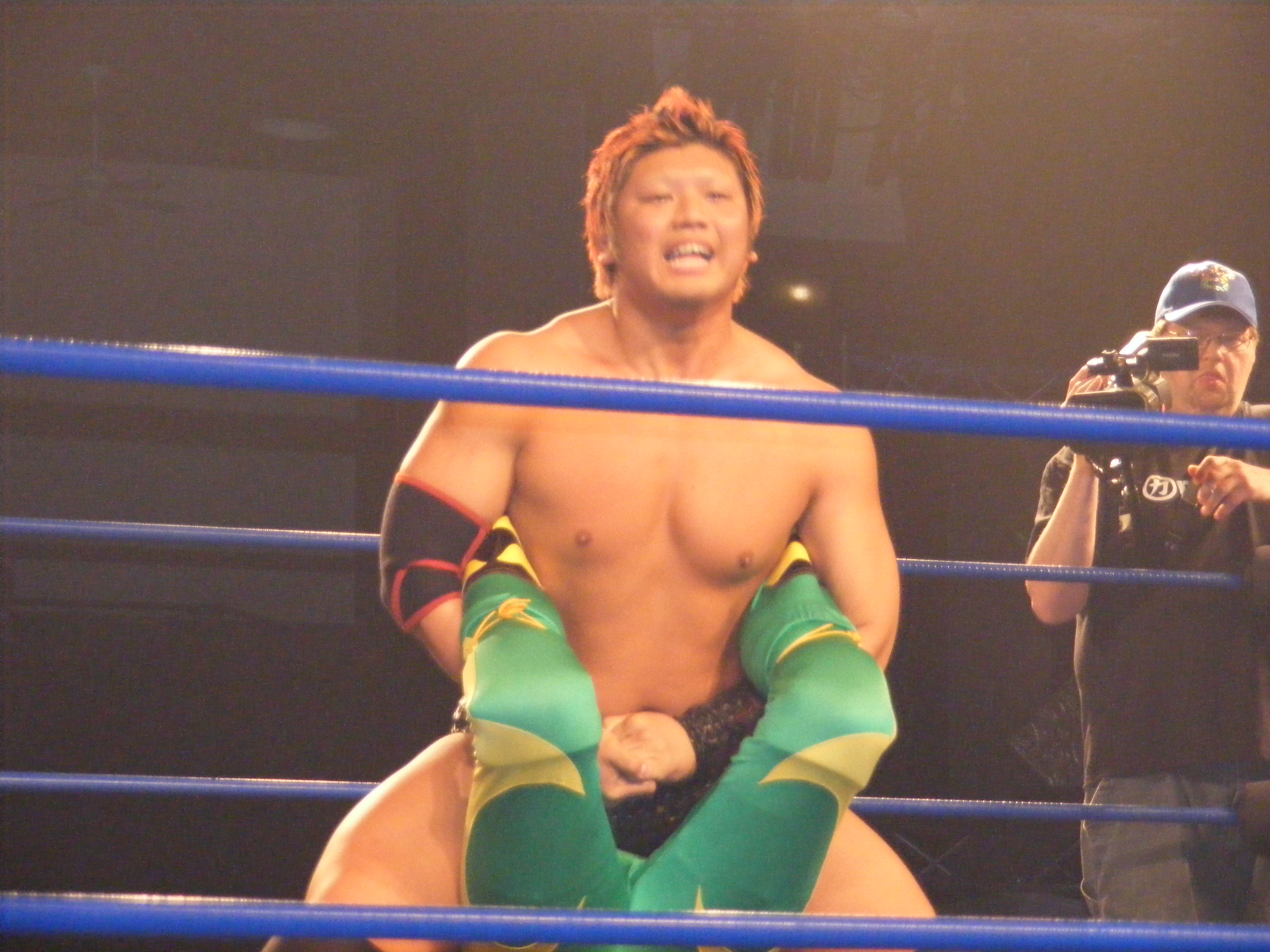 Professional wrestler Tadasuke holding Green Ant in a Boston crab at Chikara King of Trios 2010.